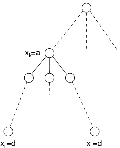 The second part of the backmarking example. When the search reaches xi again, part of the assigment is the same as before, and some consistency checks can be avoided.